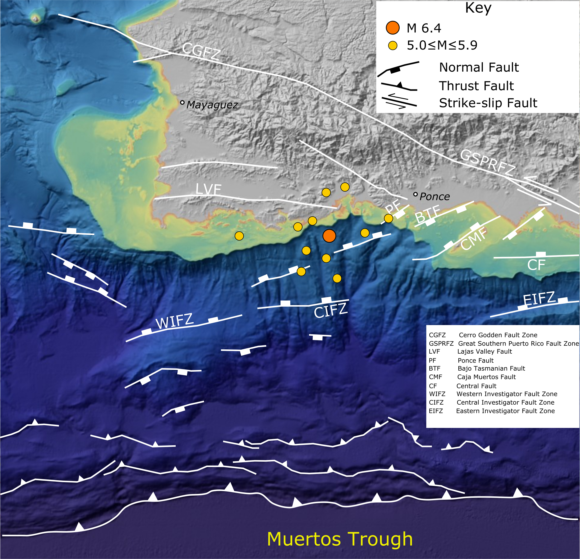 Map of southwestern Puerto Rico and its offshore area showing topography taken from the NOAA DEM Color Shaded Relief layer with the location of active faults taken from Bruna et al. 2015 and Mann et al. 2005 and epicentres of earthquakes of the 2019-2020 Puerto Rico earthquake sequence taken from ANSS